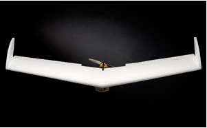 Lehmann Aviation patent wing